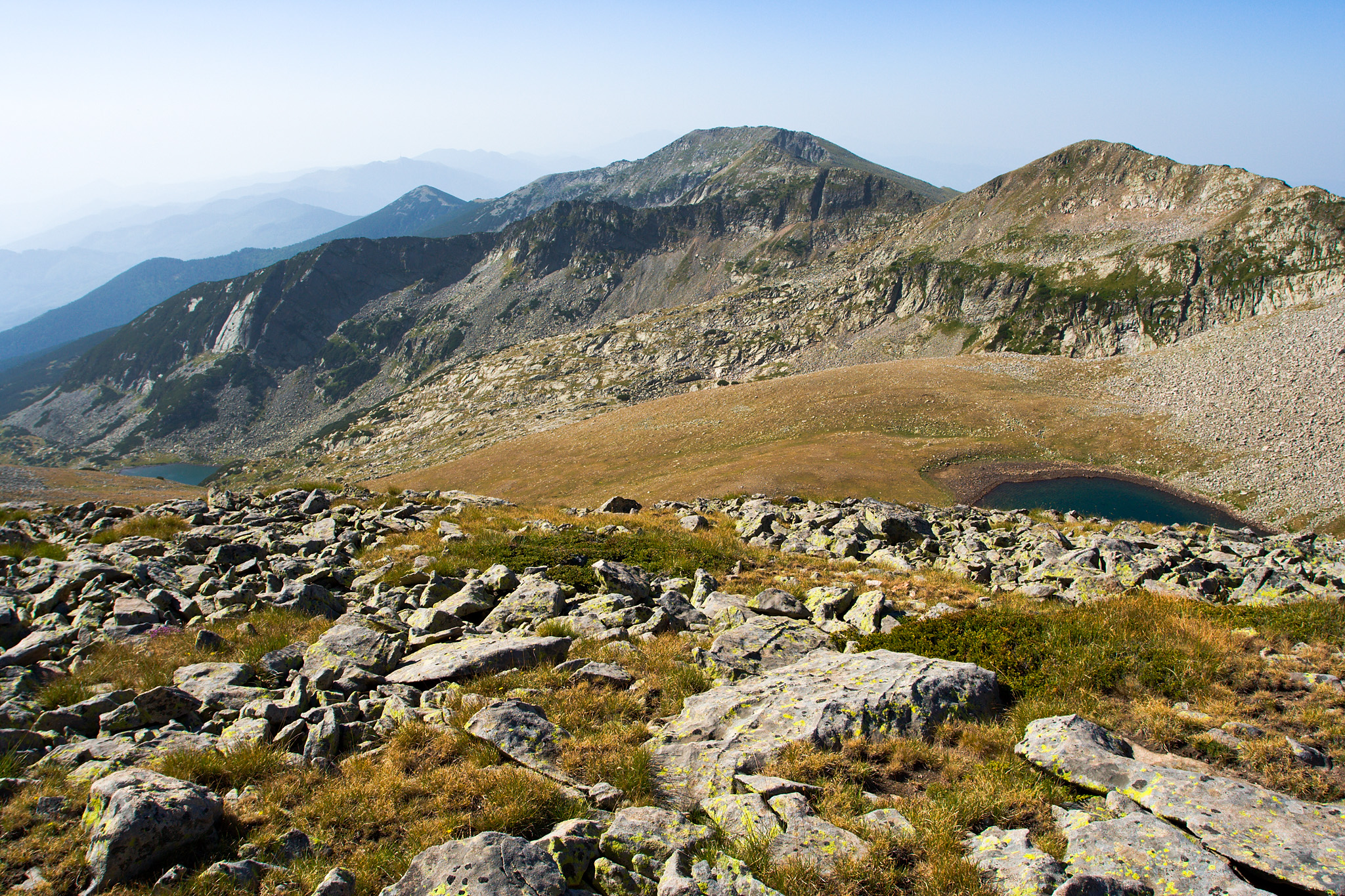 Demirchal summit in Northern Pirin mountain, Bulgaria